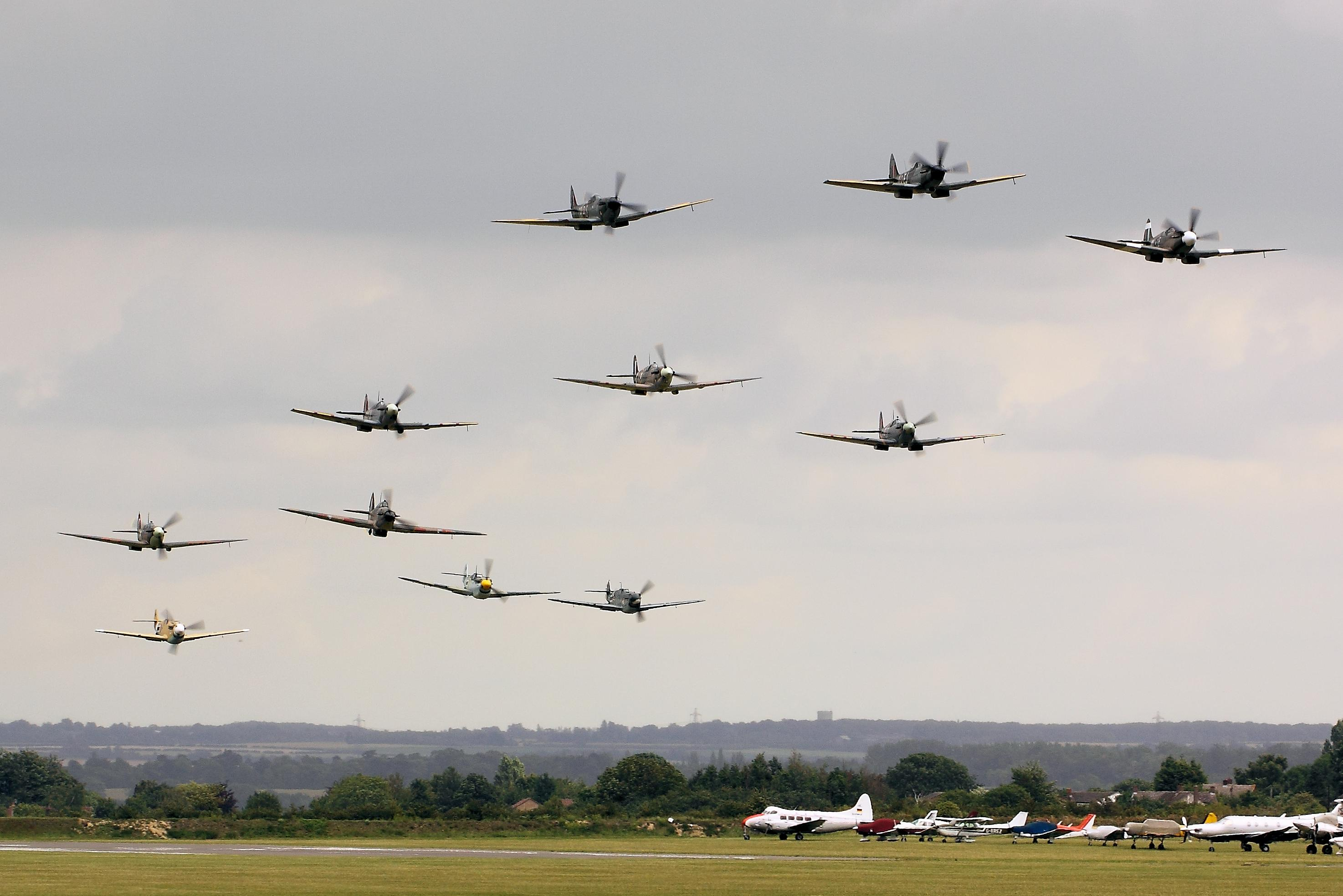 Fighter Formation - Flying Legends 2011